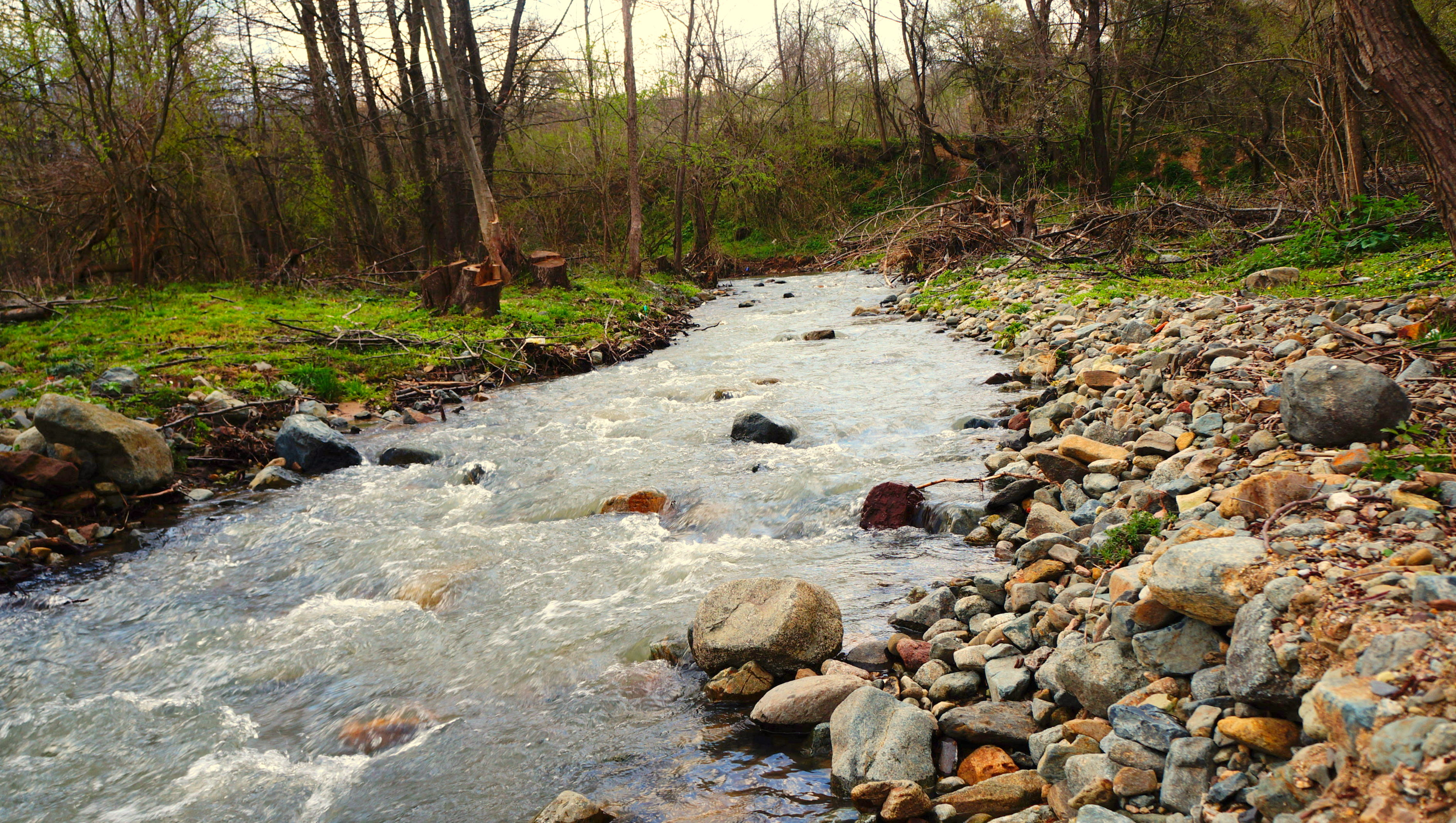 This photo was uploaded during the creation of the first wikitown in Bulgaria – WikiBotevgrad.